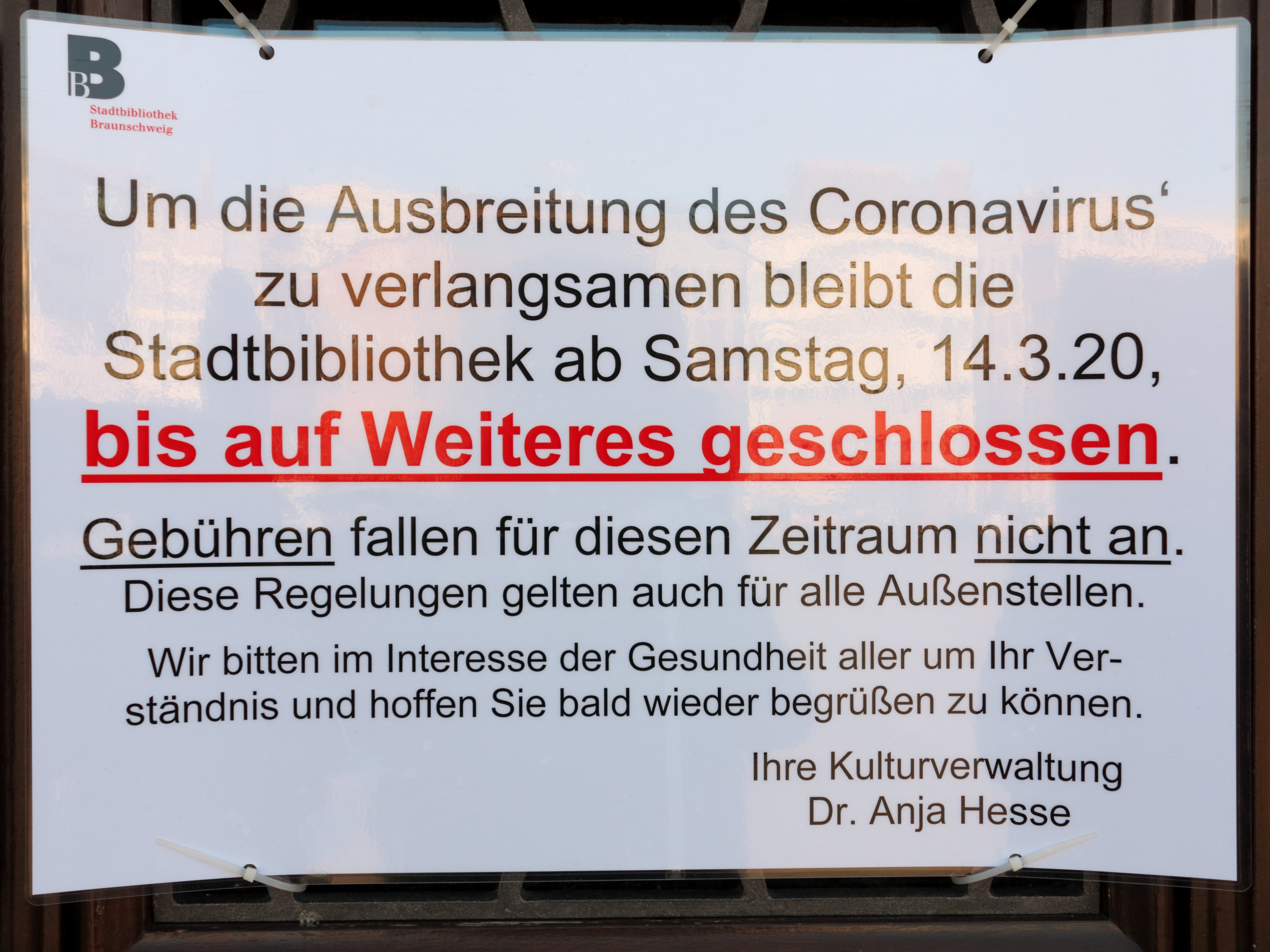 Brunswick, Germany: Braunschweig: the public library is closed due to the 2019–20 coronavirus pandemic